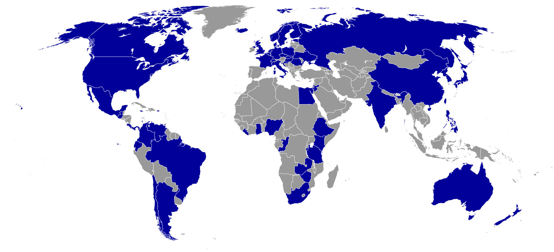 Territorial changes: He went multiple times to West Germany, East Germany and unified Germany. Zambia was called Northern Rhodesia and Zimbabwe southern Rhodesia. In Jordan he visited only East Jerusalem (today it is in Israel). He visited the territories of Czechia and Slovakia which then formed Czechoslovakia. Croatia then was part of Yugoslavia. Hong Kong was part of the British empire. Russia, Ukraine and Estonia were part of the Soviet Union, he preached in Russia before and after the dissolution of the U. S. S. R. as well.